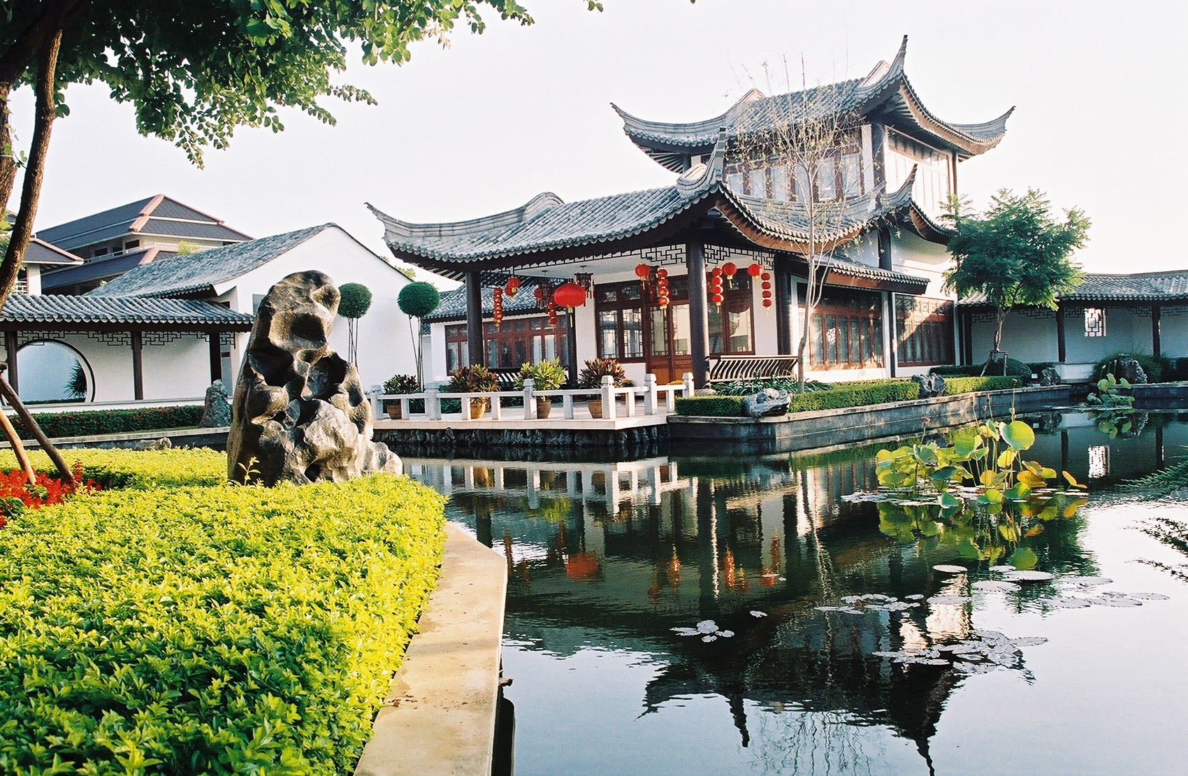 Mae Fah Luang University